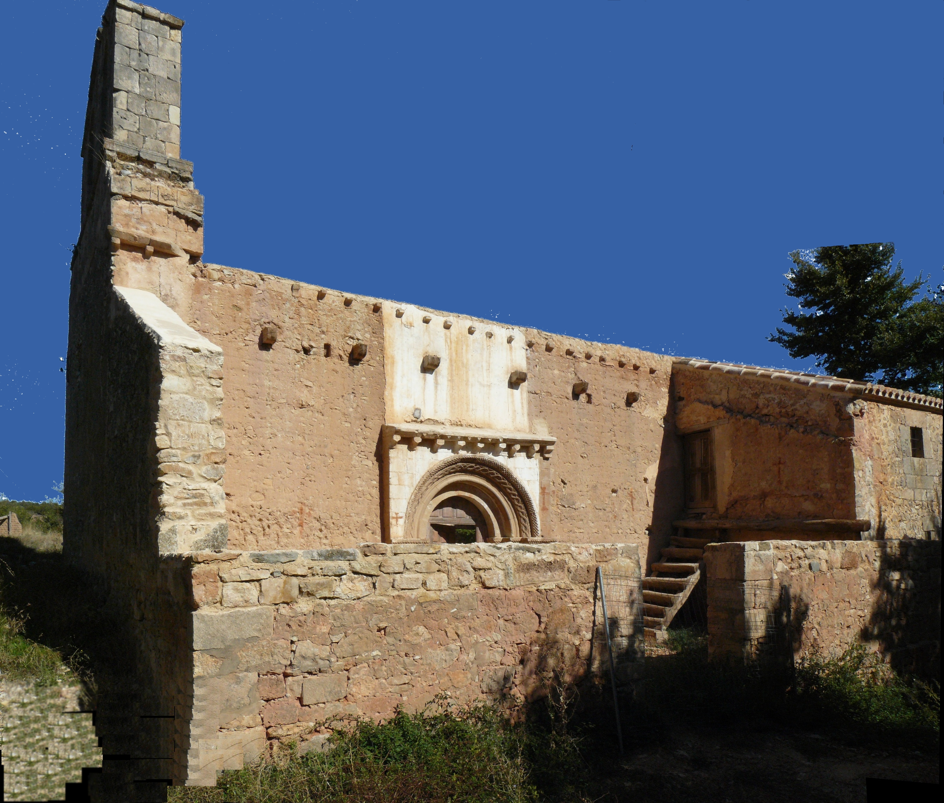 Ruined Romanesque church at Mosarejos (Soria, Spain)